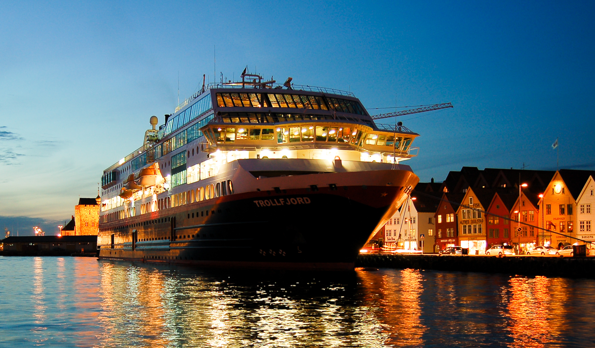 Bergen Harbour, The Hurtigruten ship MS Trollfjord at the harbour in Bergen, Norway. Image processed by (WT-shared) Illustrator Bergen (Hordaland)